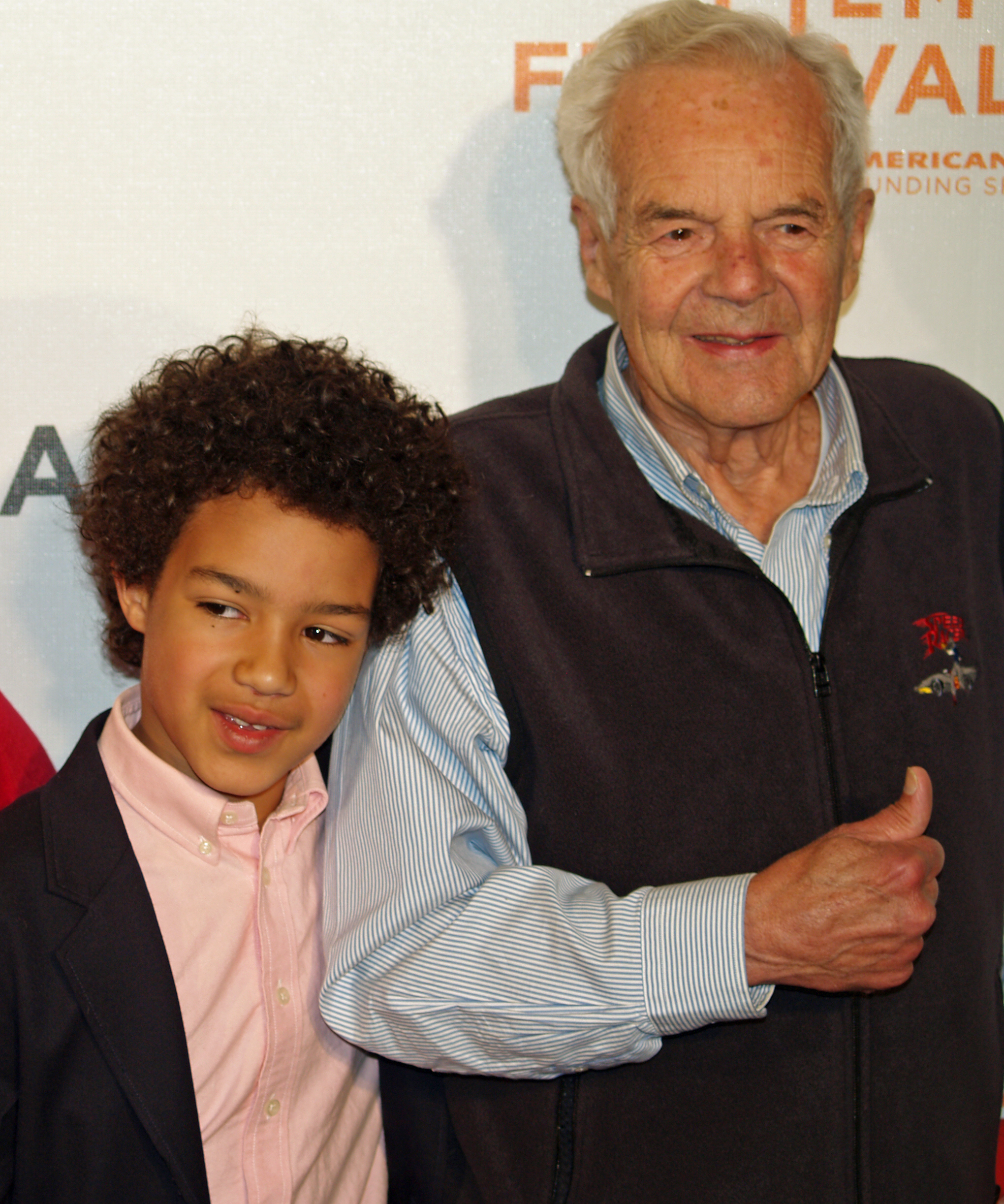 Peter Fernandez and his grandson at the Tribeca Film Festival in New York City for the premiere of Speed Racer. Fernandez was the original voice of the American Speed Racer.